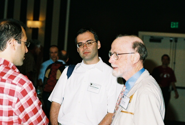 FLoC 2006: C. A. R. Hoare